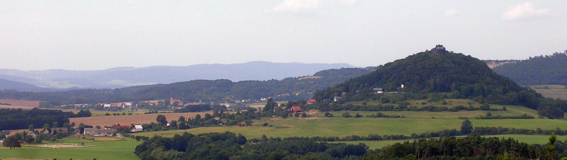 Dubá, Česká Lípa District, Liberec Region, the Czech Republic. A view of Berkovský vrch (Starý Bernštejn) from Vysoký vrch. There are villages of Vrchovany and Chlum on the left.